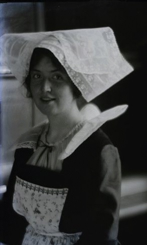 Loraine Wyman, American soprano and folksong fieldworker, as portrayed by photographer Paul Burty-Haviland wearing representative performance attire (here, Breton peasant costume), some time in the mid 1910's.